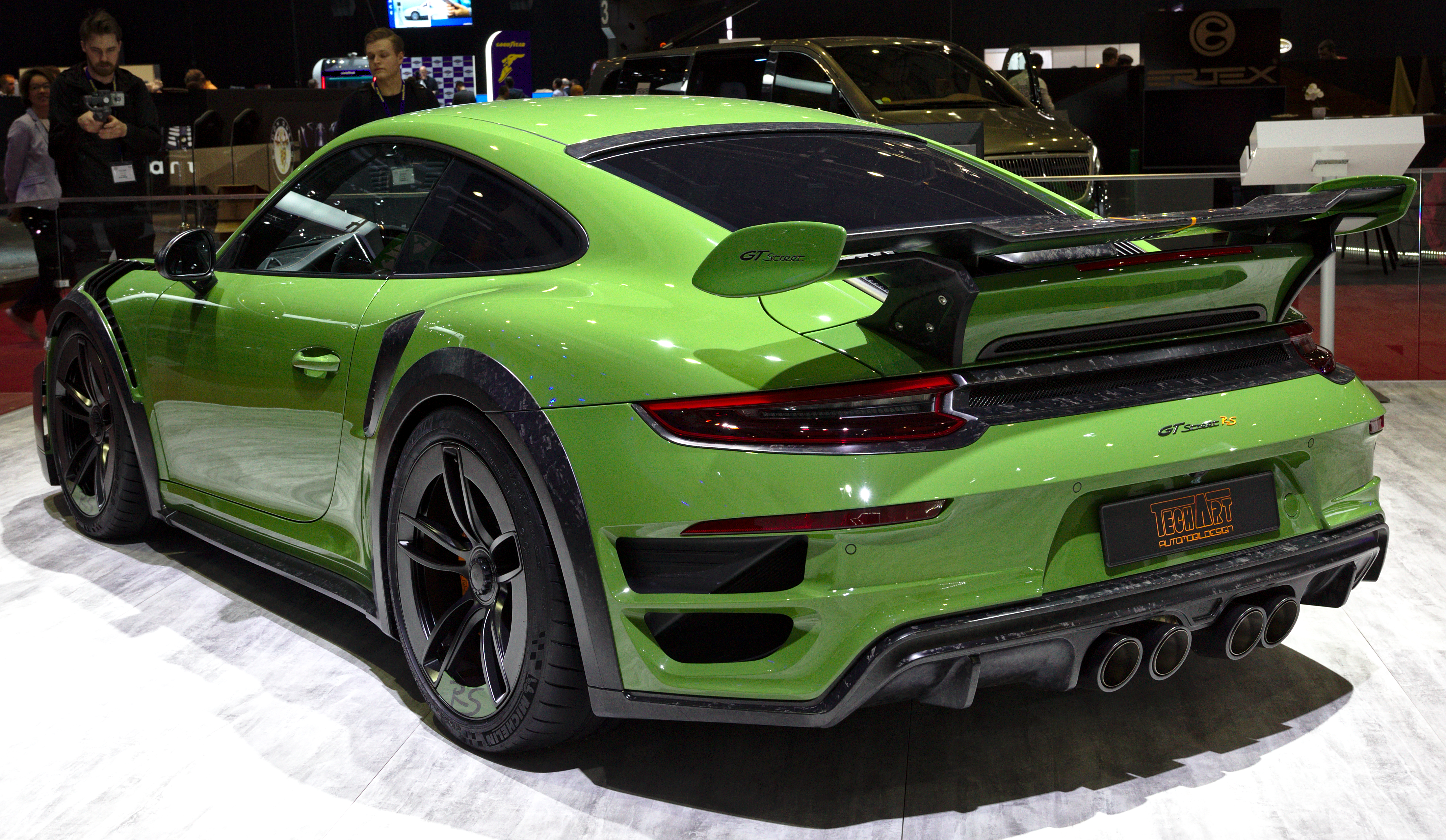 Techart GT Street RS at Geneva Motor Show 2019